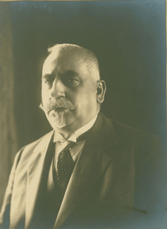 Portrait of Andrey Lyapchev